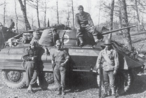 A M8 Greyhound crew of 1st Brazilian Division, Nothern Italy, WWII